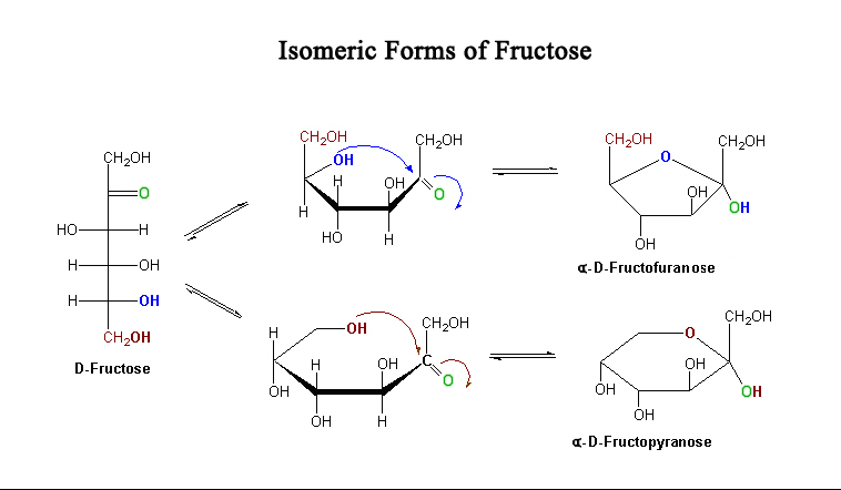 D-Fructose. Interconversion of open-chain form, furanose and pyranose. Alpha-D-Fructofuranose and Alpha-D-Fructopyranose are showed here.